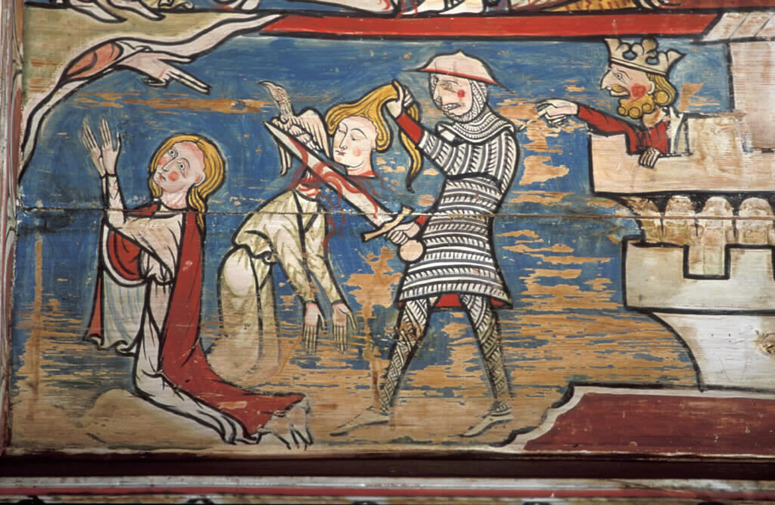 The martyrdom of St. Margareta of Antioch. Medieval painting in Torpo stave church, Norway. Photo: Kjartan Hauglid